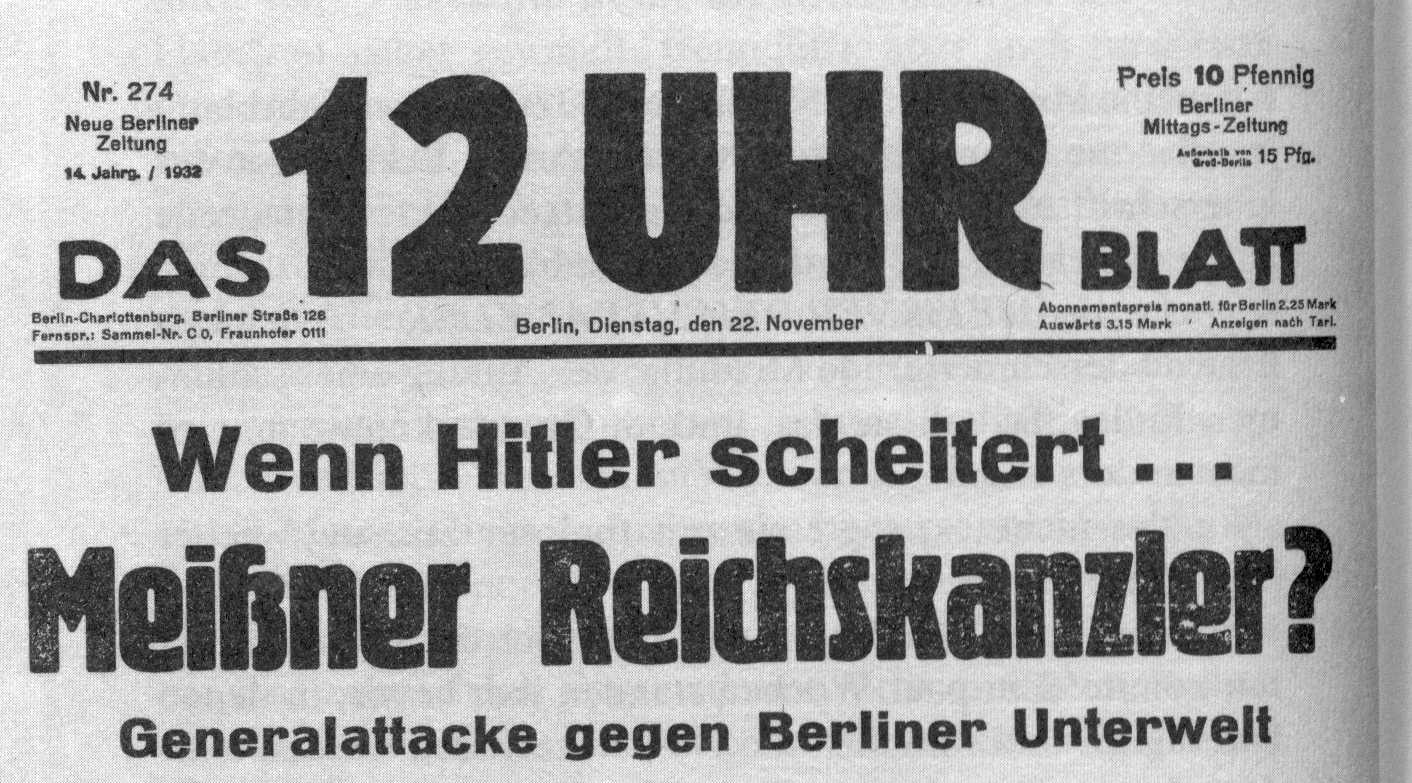 German newspaper scoop from the "12 Uhr Blatt" presenting speculations about Secretary of State Otto Meissner becoming Reichschancellor. The Caption reads "Wenn Hitler scheitert ... Meißner Reichskanzler?" ("If Hitler [who was at that time commonly expected to be the most likley next Chancellor] should fail [in performing the tasks of the Chancellor satisfactorily] ...[will] Meissner [be appointed] Chancellor?"